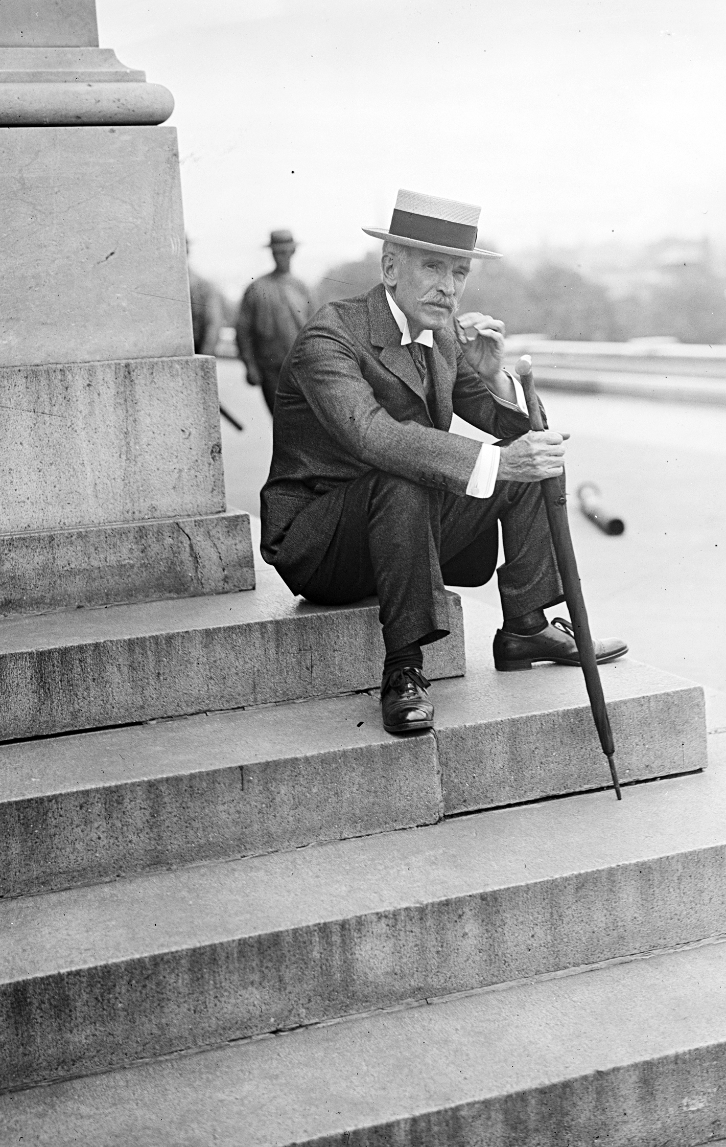 James Bede, US Representative from Minnesota